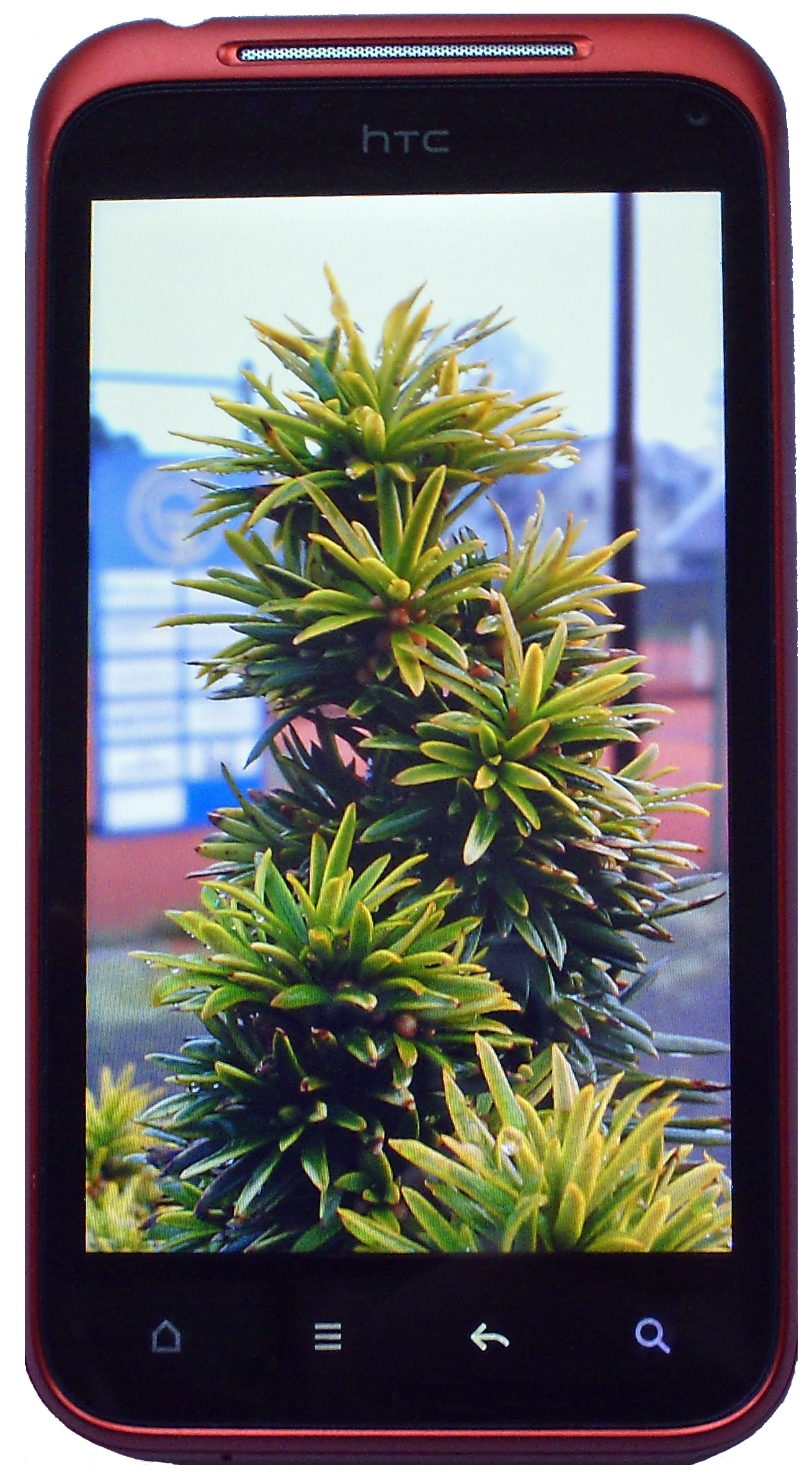 A red HTC Incredible S.